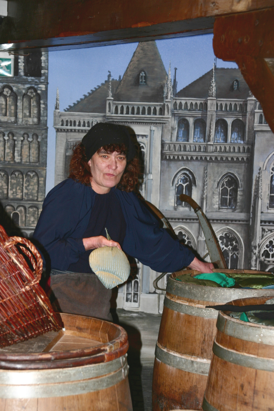 Bremer Geschichtenhaus („Story house of Bremen“) at Schnoor quarter: Fish-Lucie told